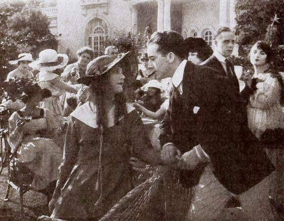 Still from the American fantasy film Sirens of the Sea (1917) with Louise Lovely and Jack Mulhall in front, and at right in the background William Quinn and Carmel Myers looking on, on page 26 of the September 29, 1917 Exhibitors Herald.